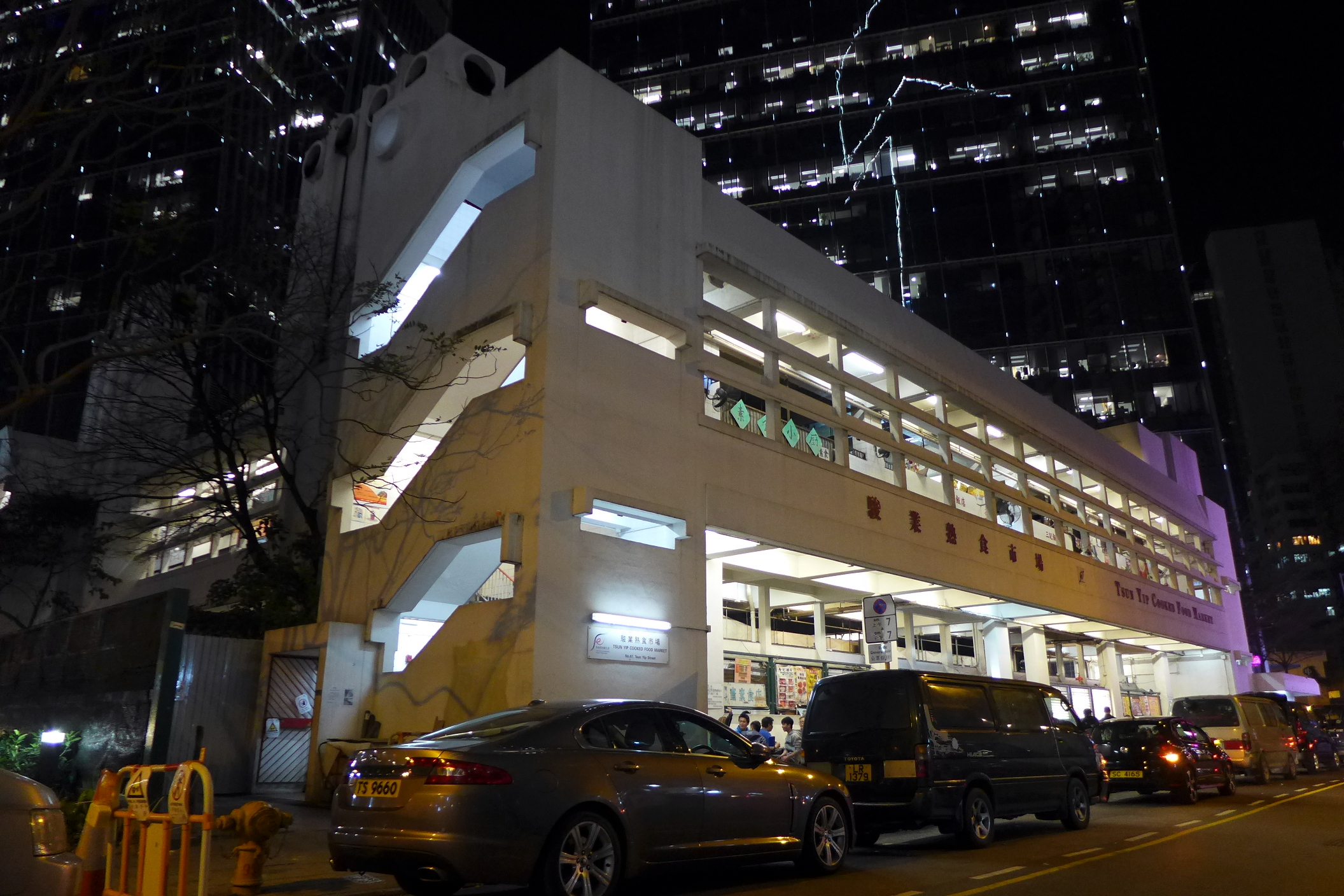 Tsun Yip Cooked Food Market